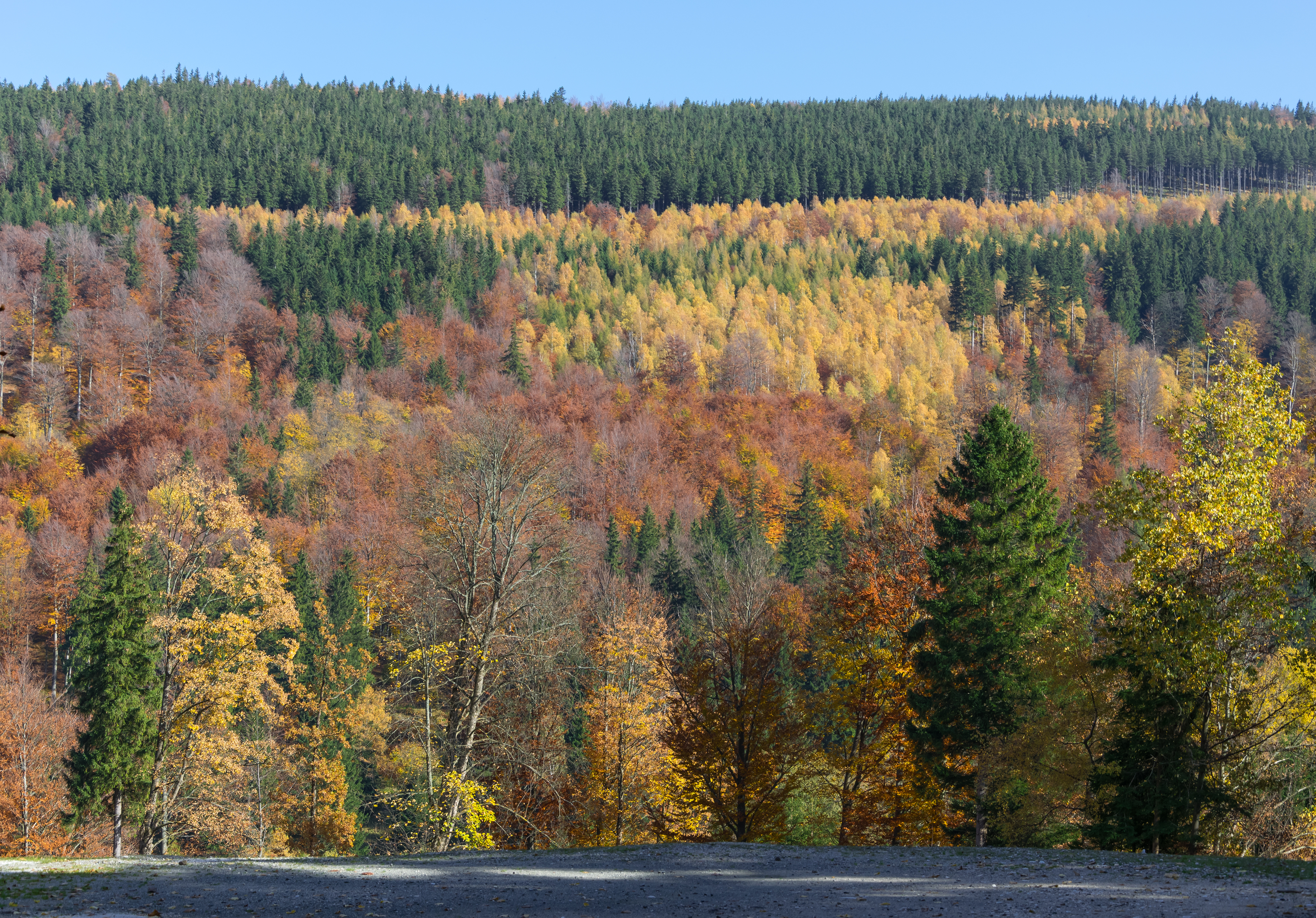 Mixed forest on the Rudka slope, Masyw Śnieżnika, Sudetes